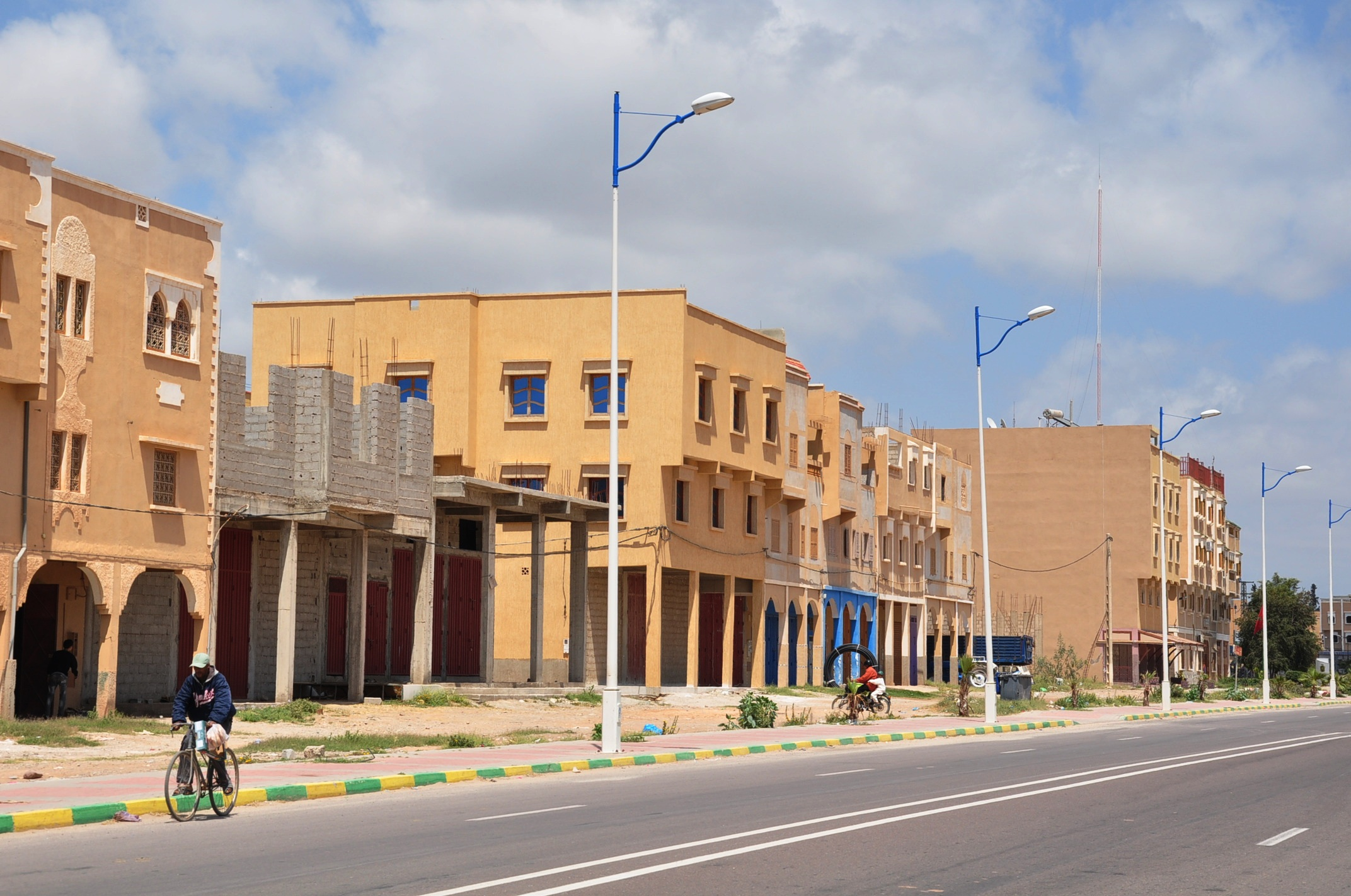 Main street in Oulad Berhil, a city in Taroudant Province, Souss-Massa-Draa region, southern Morocco.